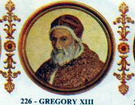 Portrait of Pope Gregory XIII in the Basilica of Saint Paul Outside the Walls, Rome